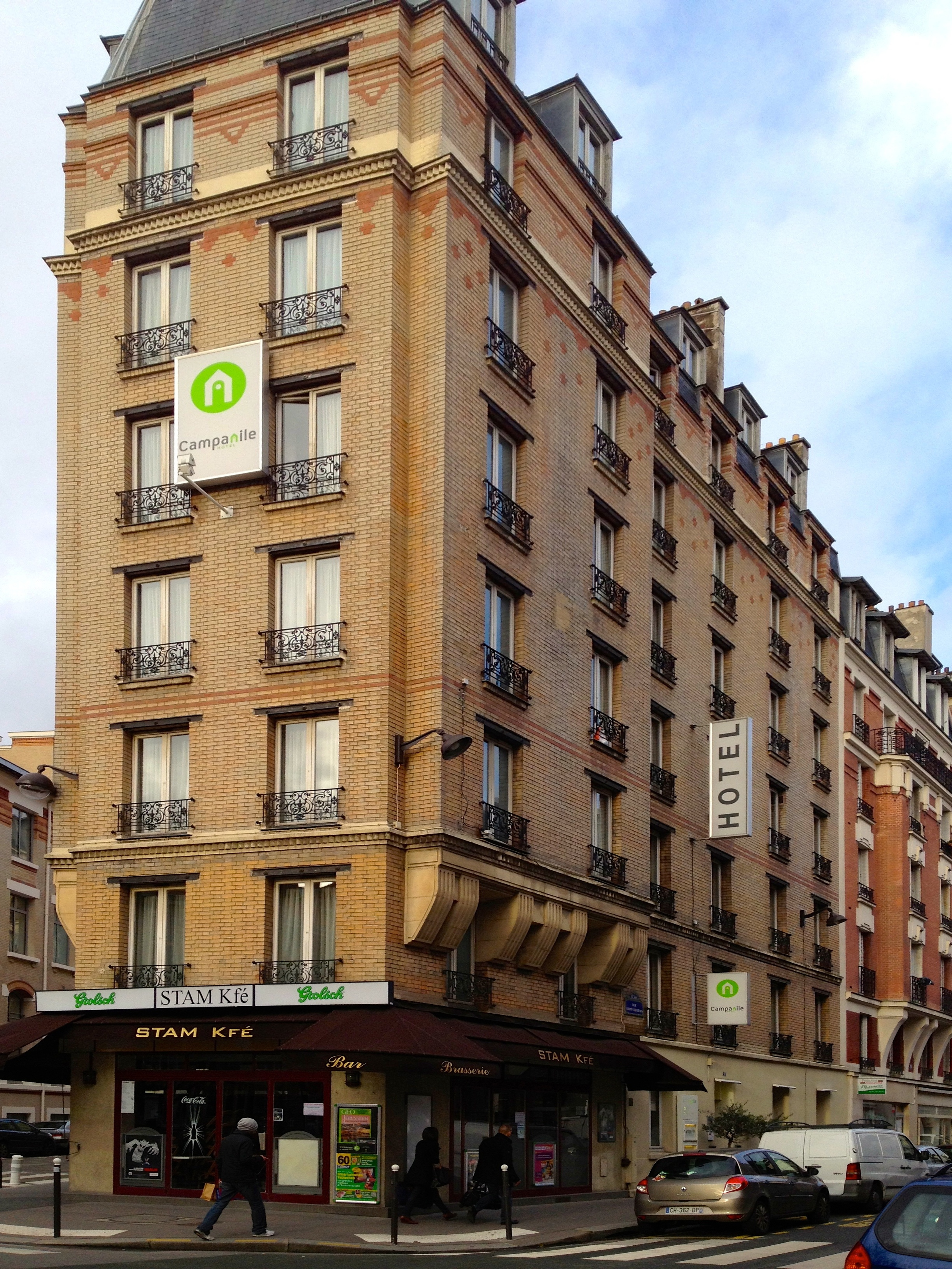 Hotel Campanile, Rue Saint Charles, 15th Arrondissement, Paris, France.